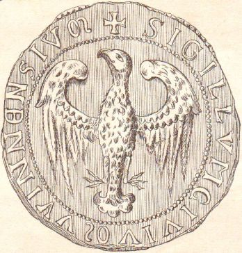 The oldest seal of Vienna.